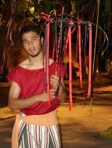 Cristian Damian Fernandez, a member of the Negros Argentinos Comparsa Misibamba Association, Afro-Argentine community in Buenos Aires. He is playing the "Chinesco" during the filming of the movie "Felicitas" (Photo Pablo Cirio, Uribelarrea, 2008).